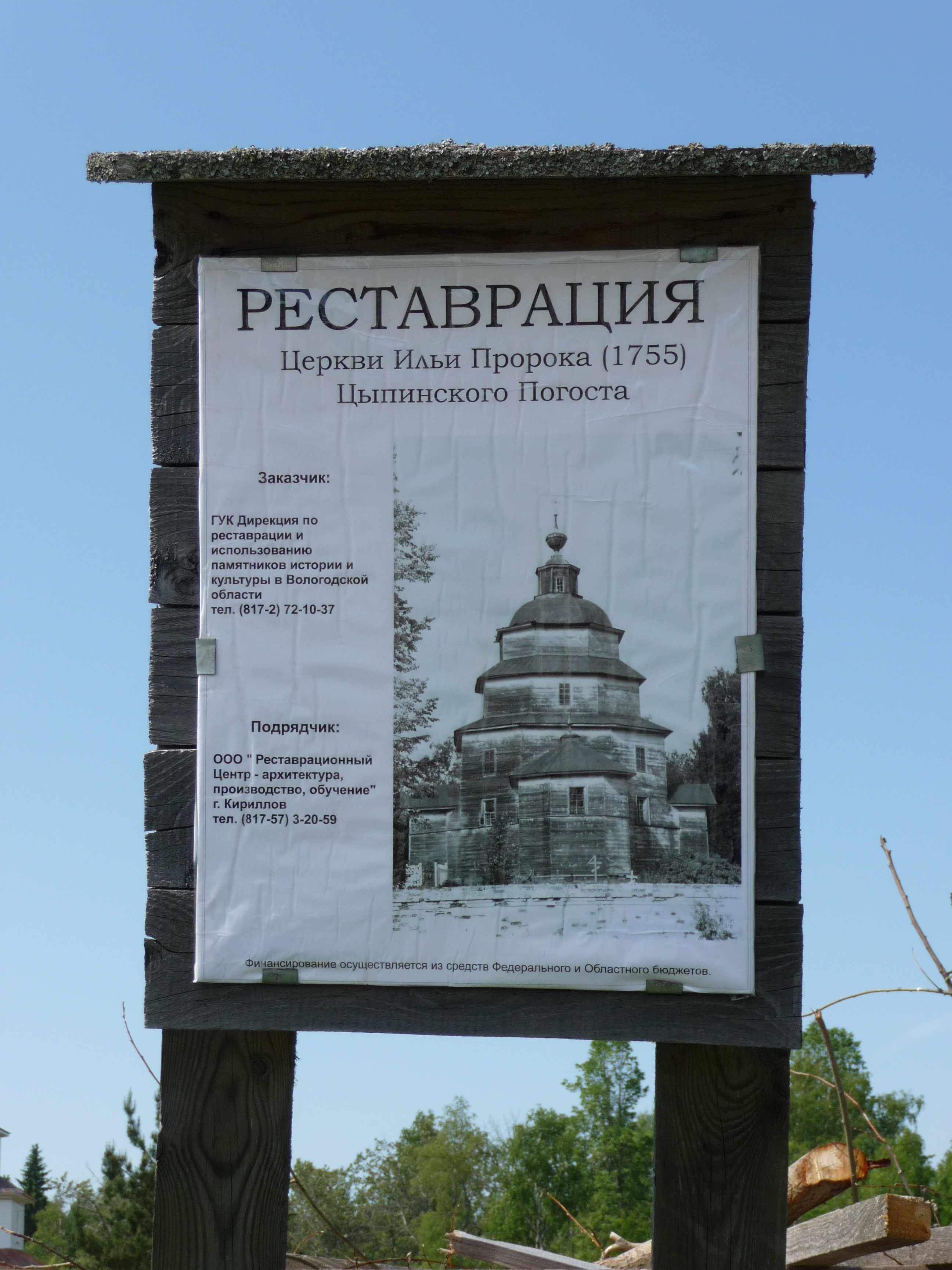 Restoration stand with information about Church of Elijah the Prophet in_Tsipino_Pogost. Near the Ferapontov Monastery, Vologodskaya oblast, Russia